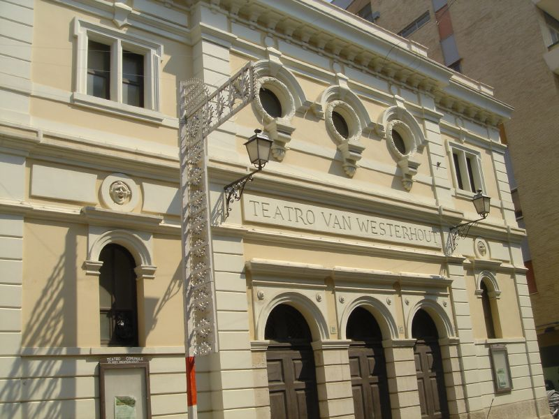 The Van Westerhout Theatre in Mola di Bari, Italy.